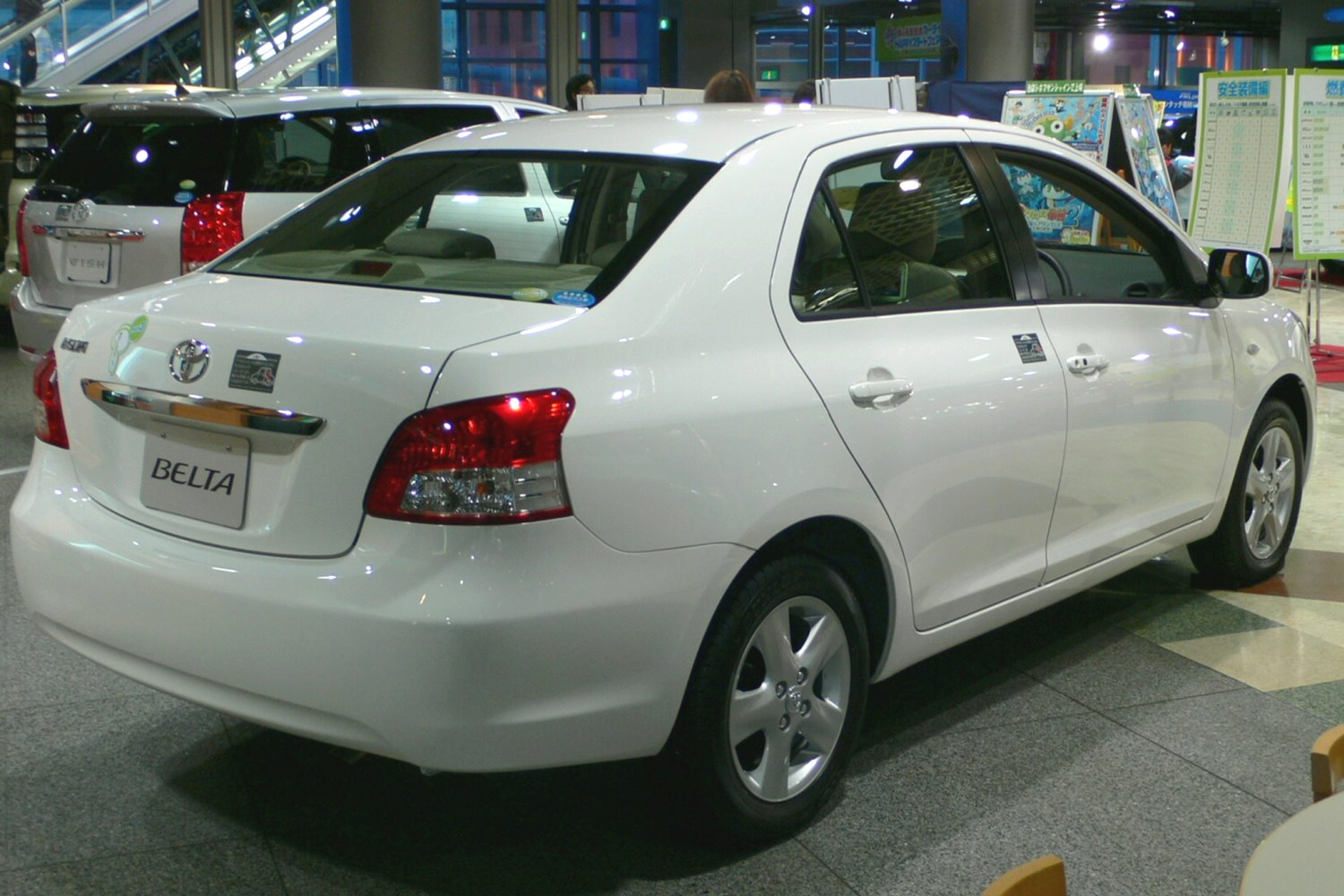 Toyota_Belta(2005) taken in Showroom of Toyota-AMLUX